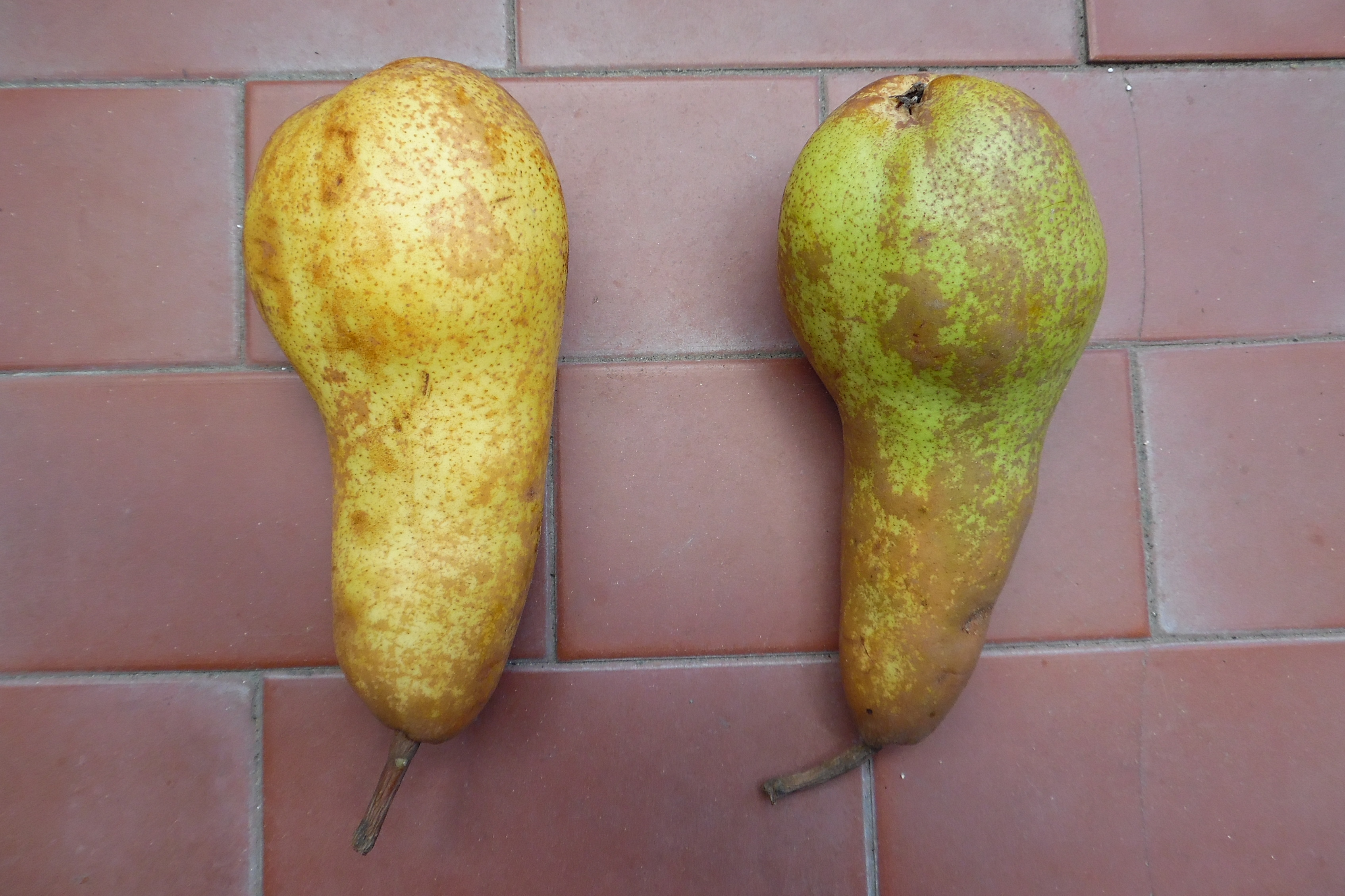 Two Abate Fetel pears, harvested the same day. The right one was treated with a 1-methylcyclopropene-based product, unlike the left one. Both fruits were stressed by being put in an ethylene-rich atmosphere in order to accelerate ripening, then left in open air for days. The ripening continued in the control sample, while in the treated one it was considerably slowed.